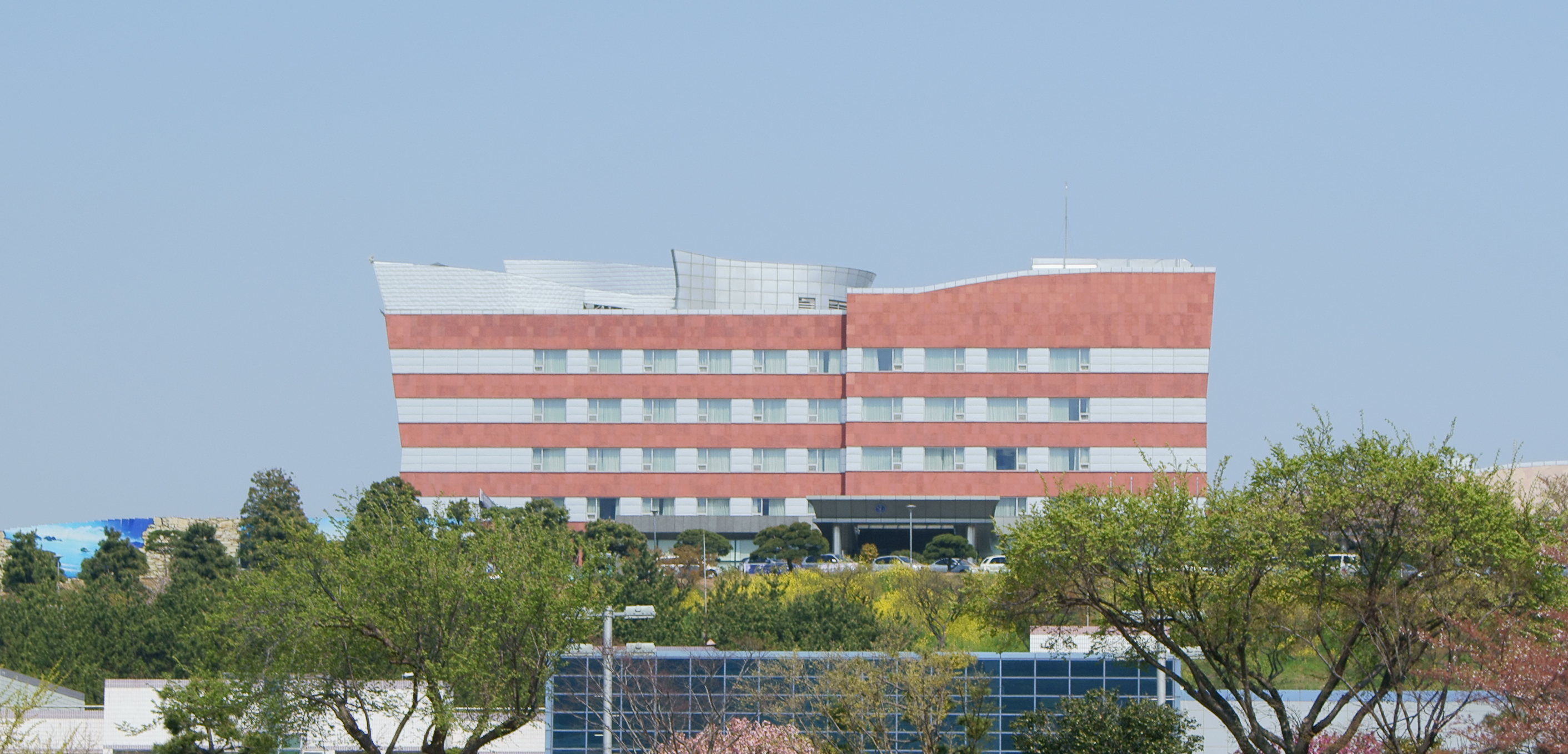 Samsung Hotel in Geoje, Gyeongsangnam-do, South Korea